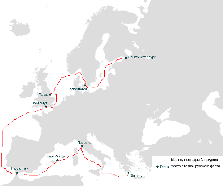 This is way of russian navy from Sankt-Peterburg to Aegrean Sea in july 1769 - mart 1770 during russo-tukish war 1768-1774.